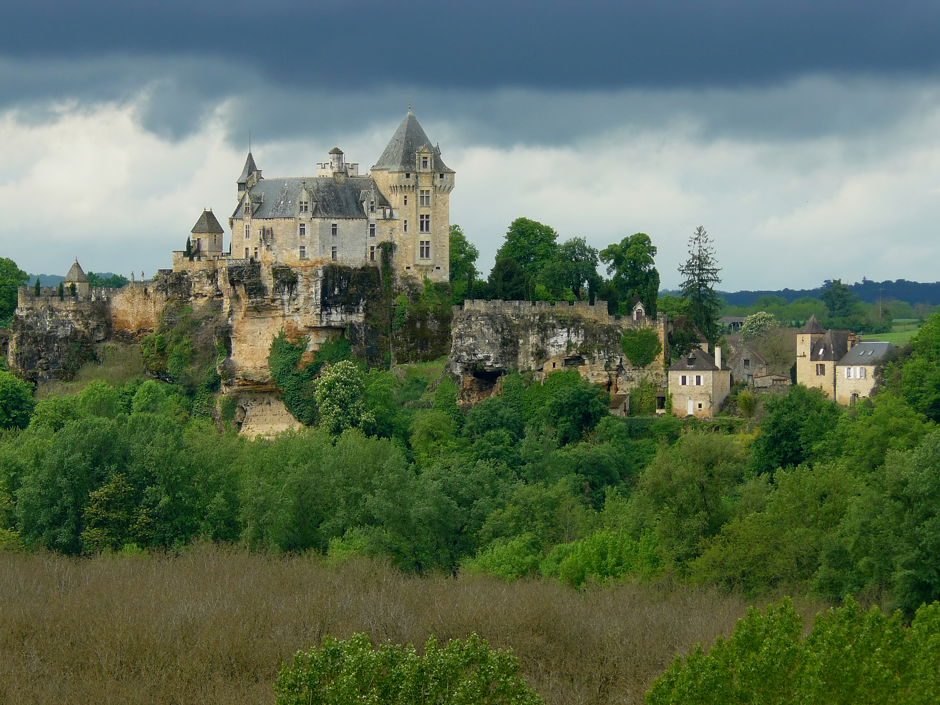 Monfort Castle above the Dordogne River from the distance, Département Dordogne/France Object location44° 50′ 16″ N, 1° 14′ 57″ E